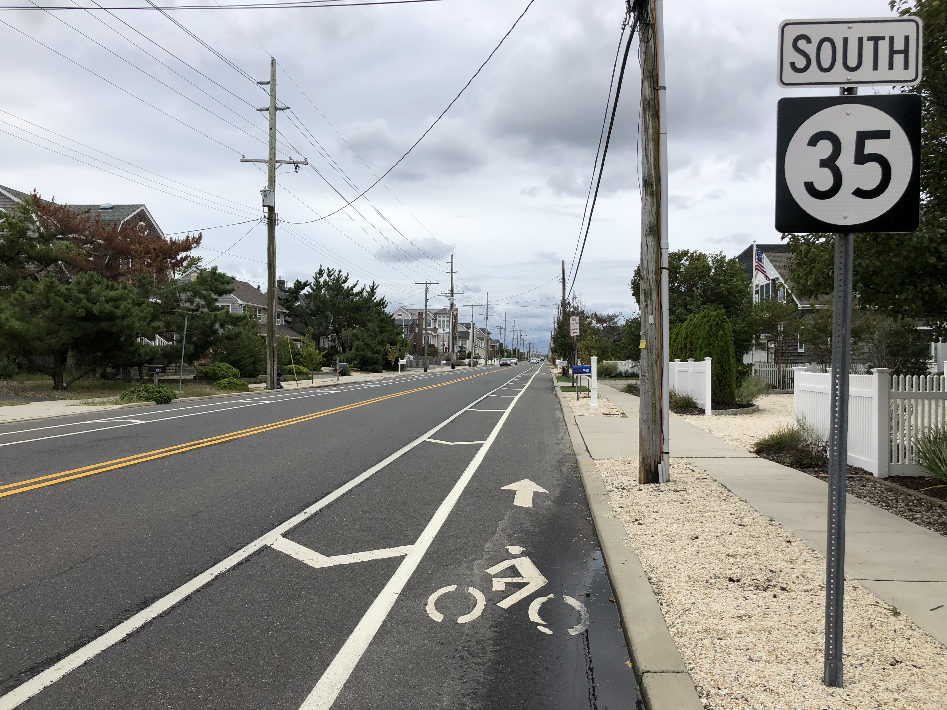 View south along New Jersey State Route 35 (Ocean Avenue) just south of Williams Place in Mantoloking, Ocean County, New Jersey